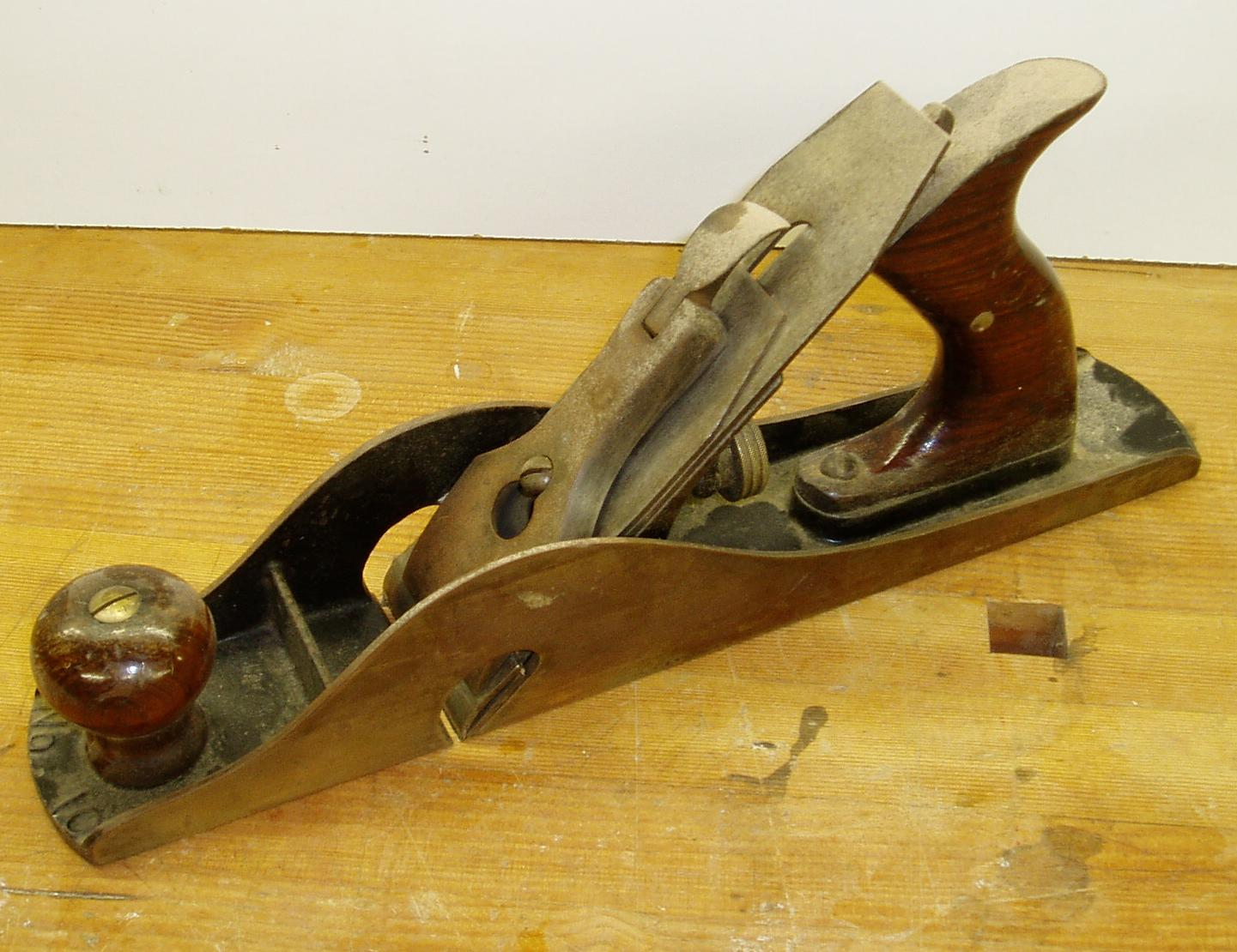 Picture of a Stanley No10 rebating (rabbet) or carriage maker's plane taken 16 October 2005 by Luigi Zanasi (myself) on my workbench using a Olympus digital camera.